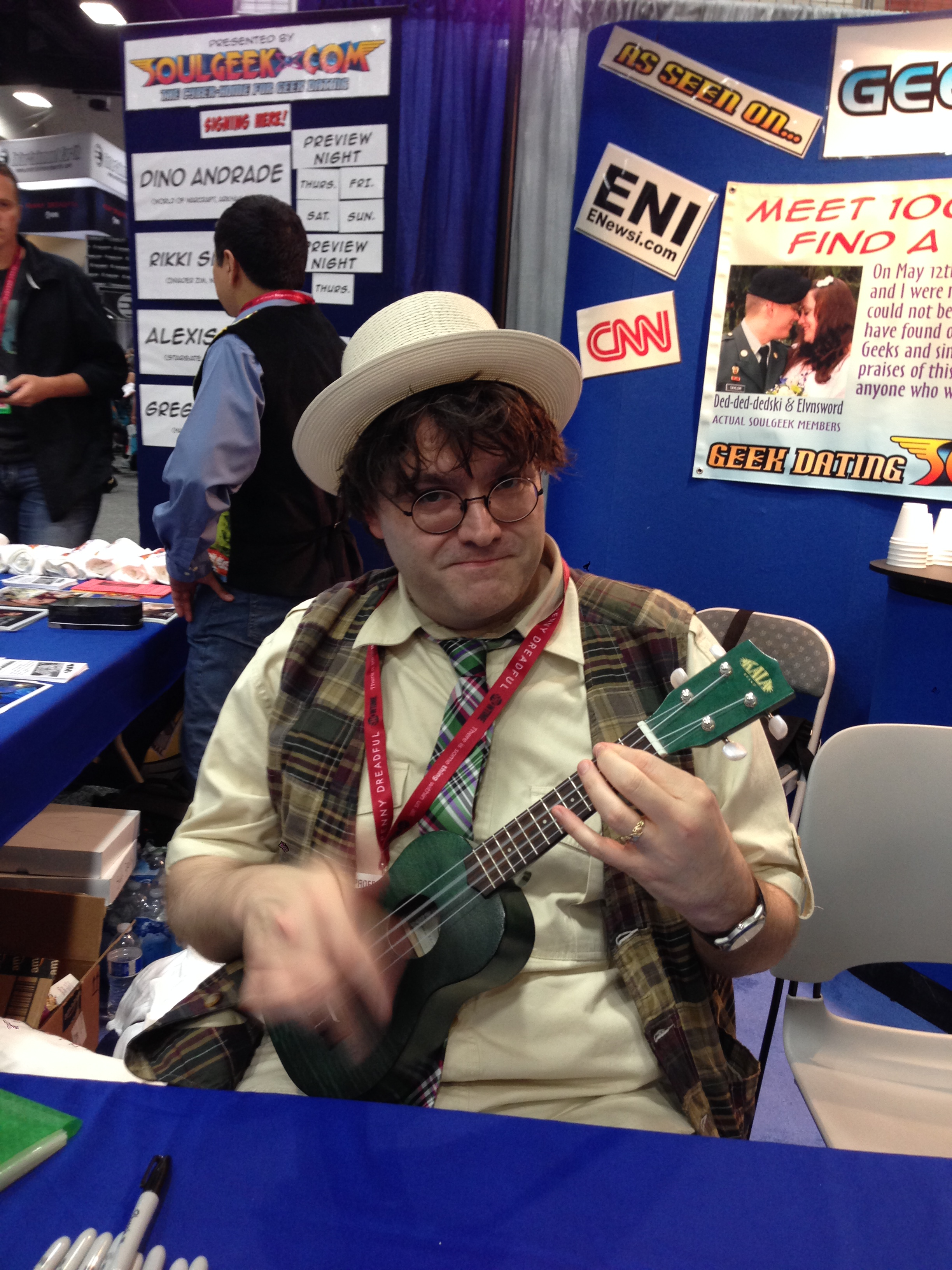 Rosearik Rikki Simons at 2014 San Diego Comic-Con International